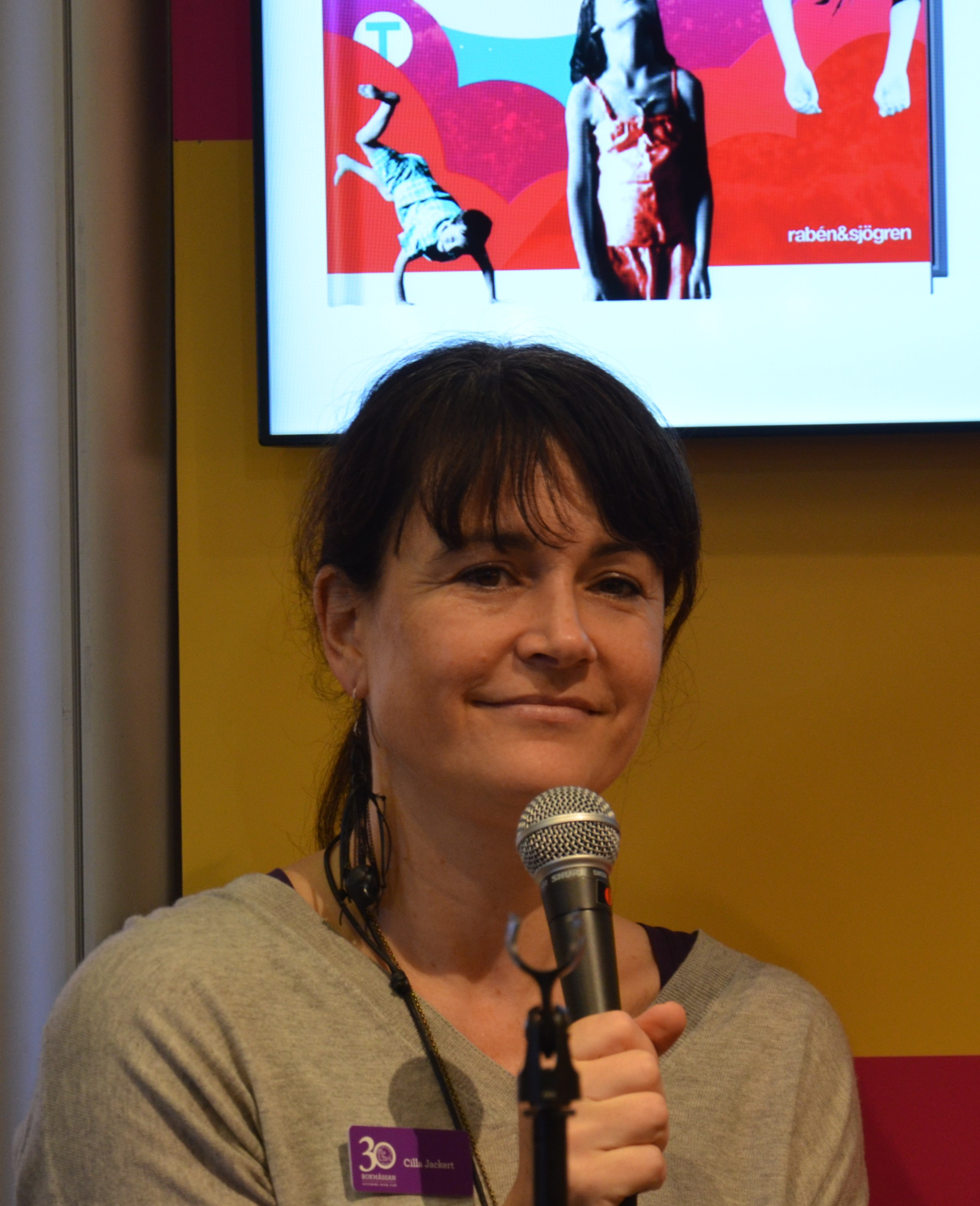 Cilla Jackert